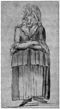 Karl Gabriel Schylander in ”Marcus Wimmerberg”